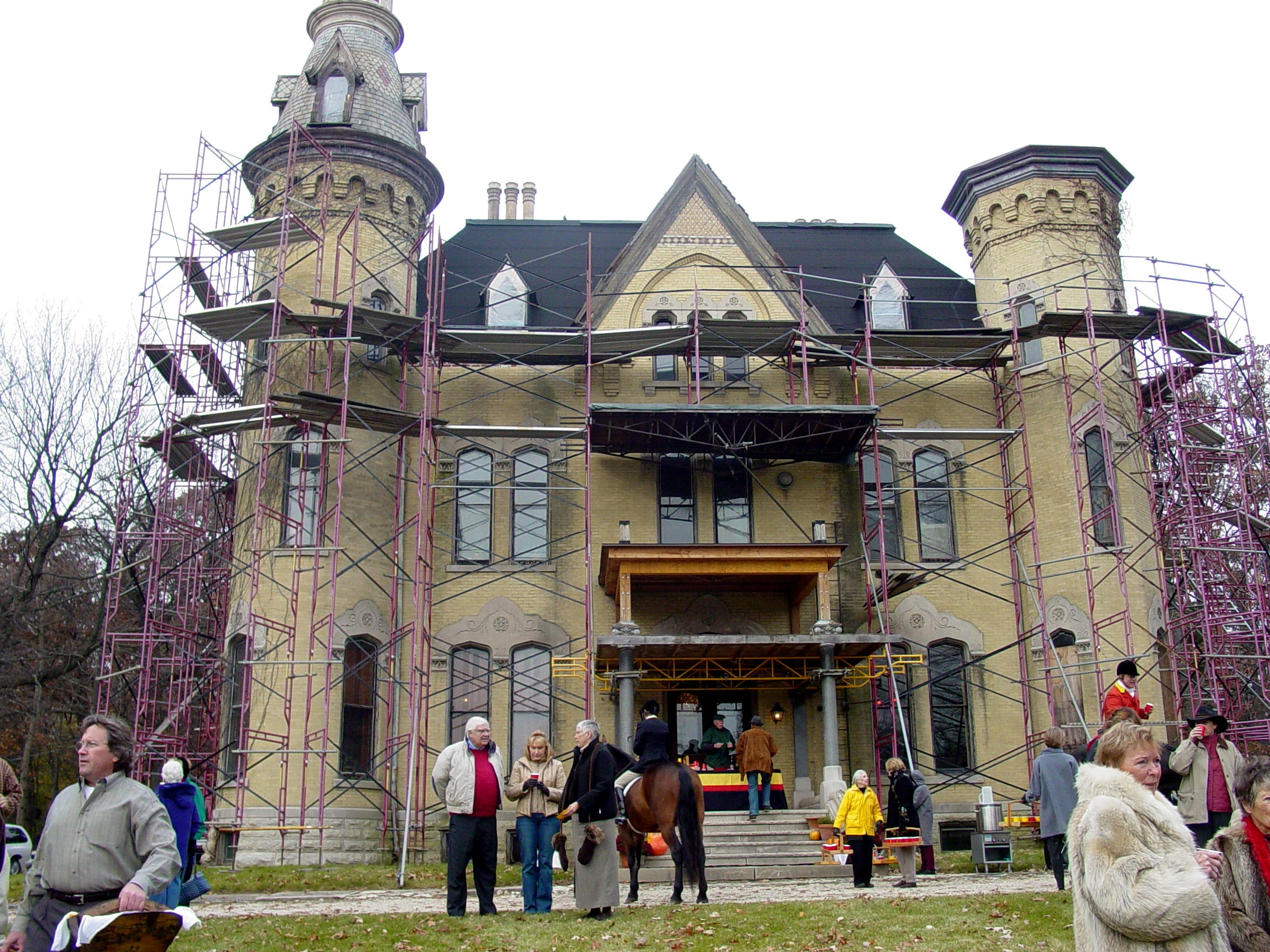 Dunham Castle, Wayne, Illinois during Stirup Cup 04 Nov 2006 Licensing Removed from the following pages: Wayne --OrphanBot (talk) 05:56, 29 April 2009 (UTC)